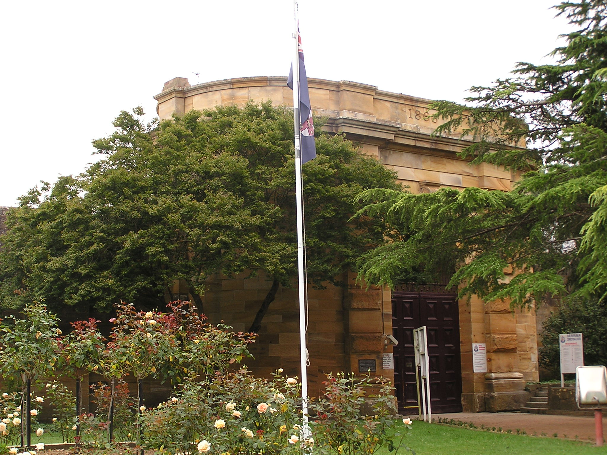 Berrima, New South Wales, Australia - gaol - now known as Berrima Correctional Centre Picture taken by AYArktos